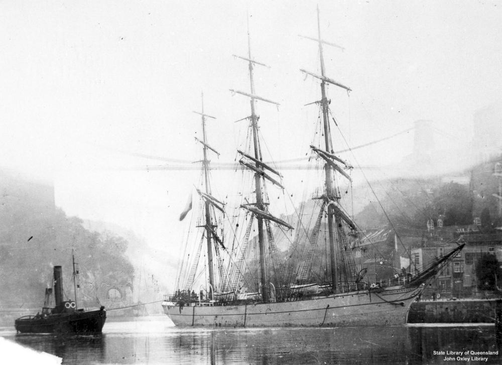 City of Benares passing under the Clifton suspension bridge over the Avon river, Bristol The City of Benares is preparing to enter the locks that give access to the harbour of the port of Bristol in south west England. On 1st October 1911 this ship was beached at Westkapelle, at the south western point of the Netherlands, with the loss of many lives. During dike reconstruction in 2006, pieces of the ship were uncovered and will be placed on display in the garden of the local museum. (Description supplied with photograph).